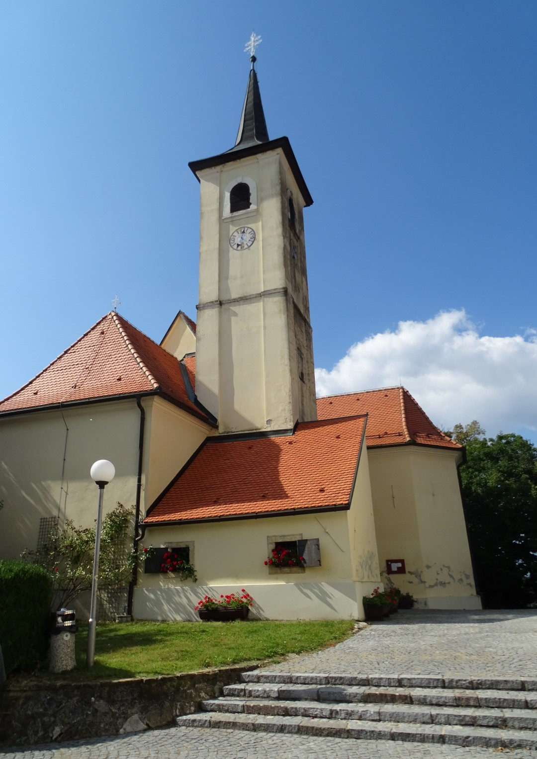 Jeruzalem - Church of Our Lady of Sorrows